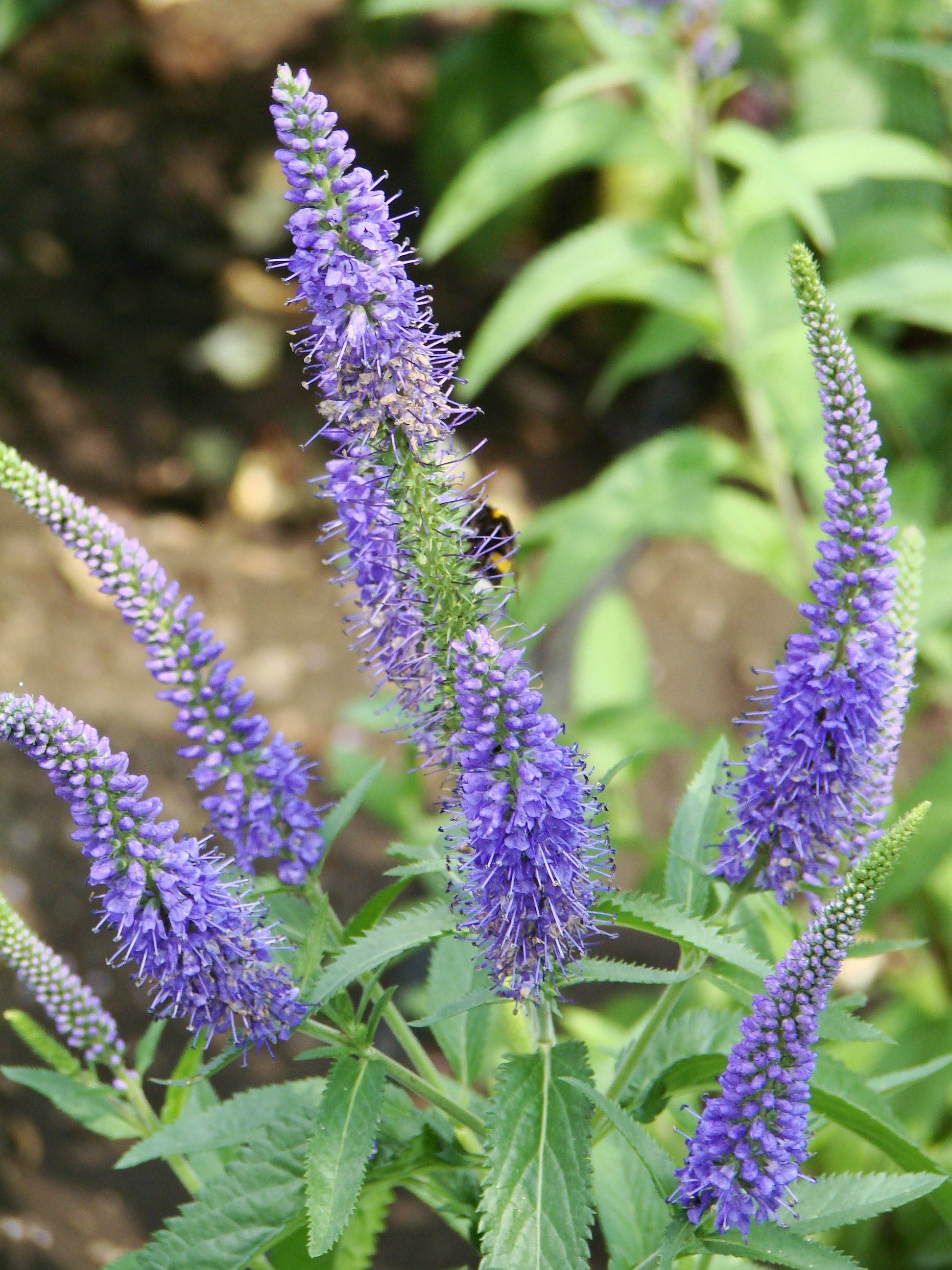 Picture taken in the university botanical garden of Wrocław (Poland): Veronica longifolia L. syn Pseudolysimachion longifolium (L.) Opiz